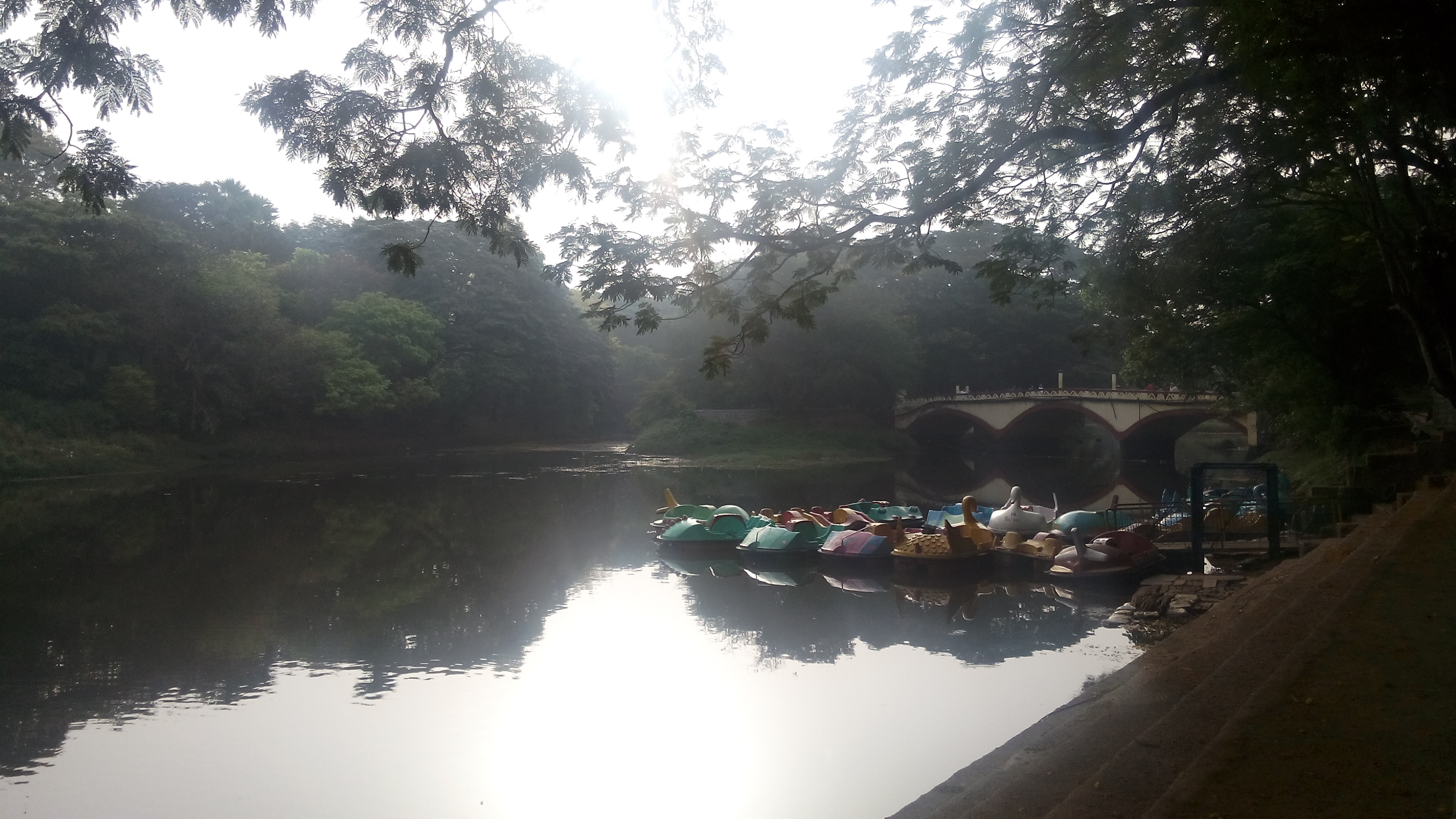 Lake for Boating Inside National park